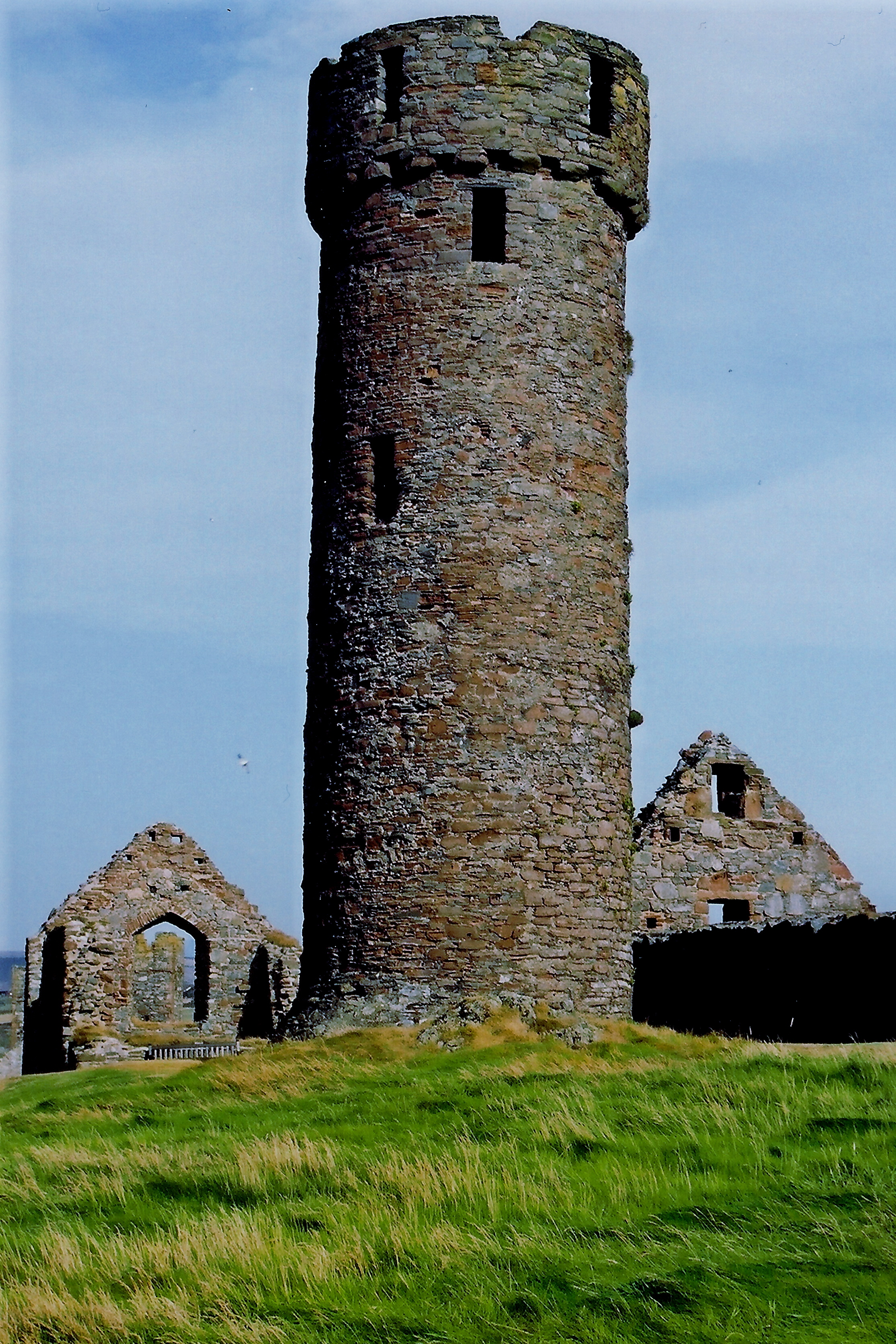 Peel Castle interior - Round tower and stone buildings